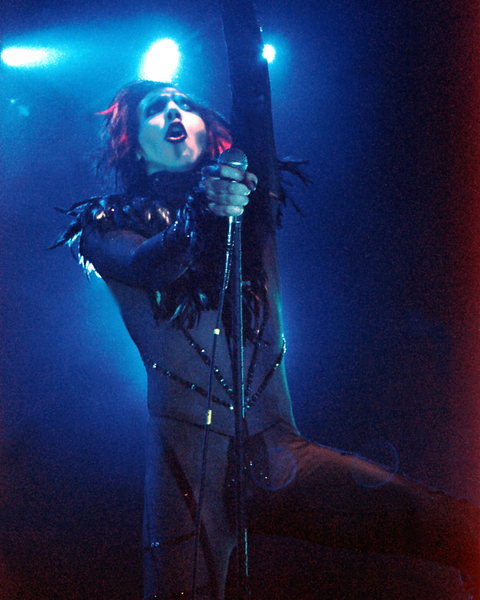 Concert photo from the Mechanical Animals Tour